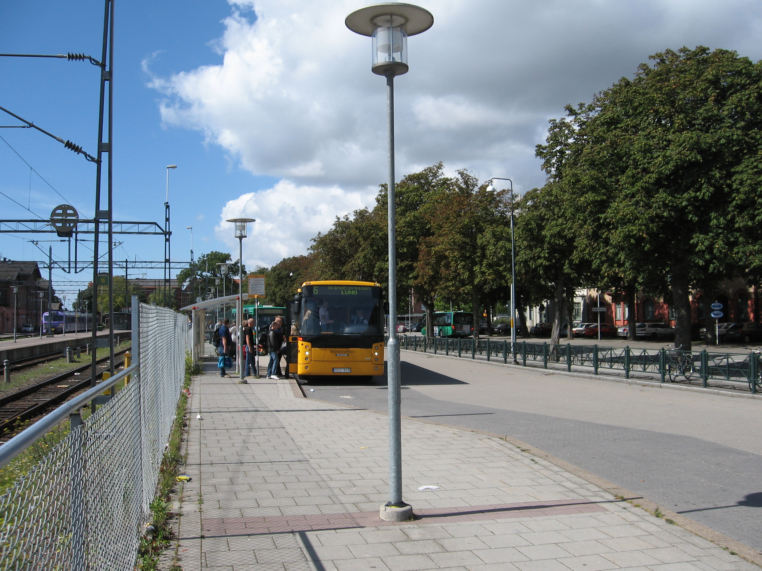 Vest bus with Scania chassis in Ystad, Sweden. Veolia Transport Sverige AB from Ystad operator.